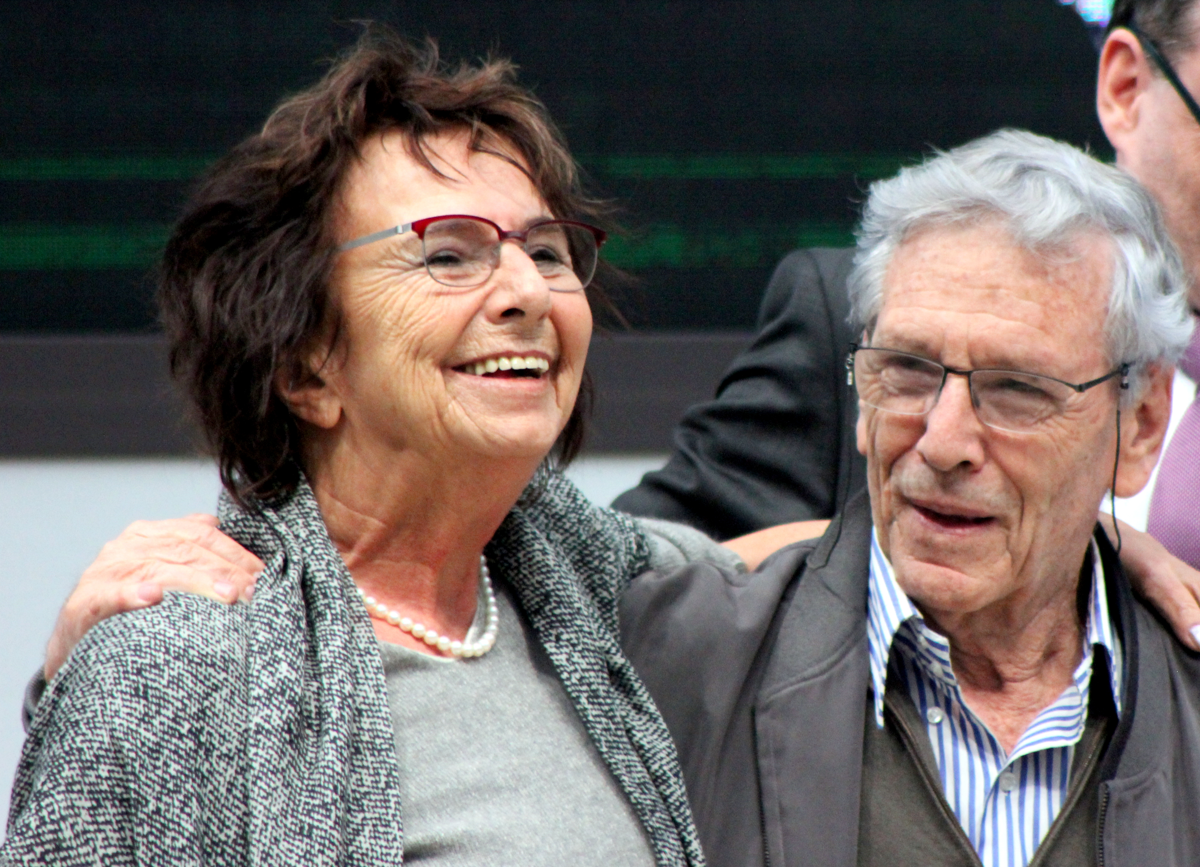 Mirjam Pressler and Amos Oz, Leipzig Book Fair 2015